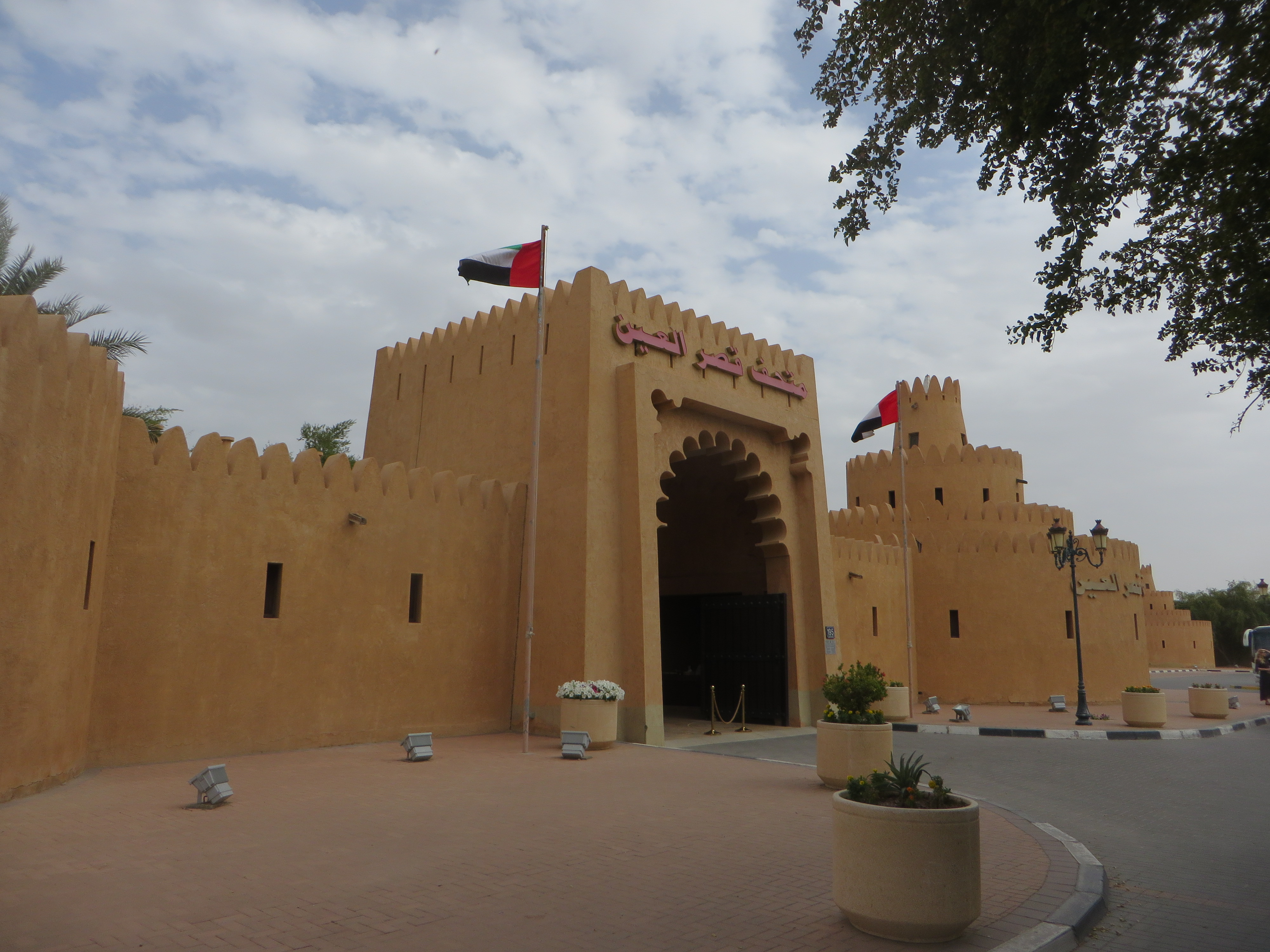 Front entrance of the Al Ain Palace Museum (aka the Sheik Zayed Palace Museum) in Al Ain, Abu Dhabi, United Arab Emirates (UAE).